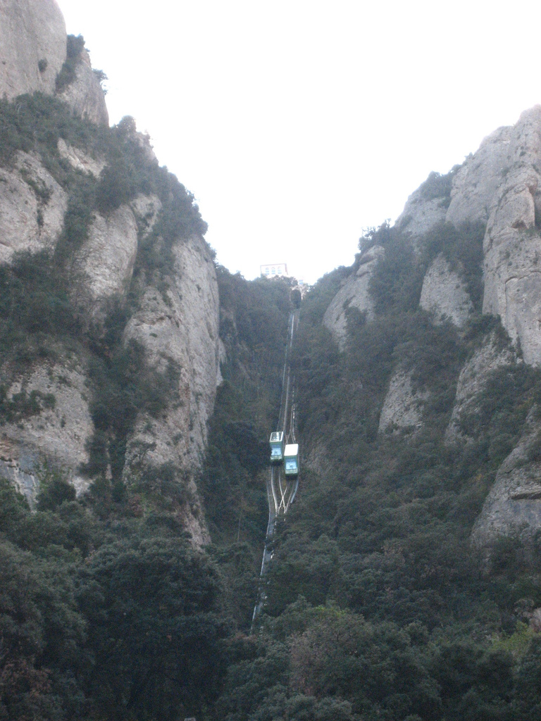 The Sant Joan Funicular on Montserrat Mountain in Catalonia, Spain. For more information, see the Wikipedia article Funicular de Sant Joan.